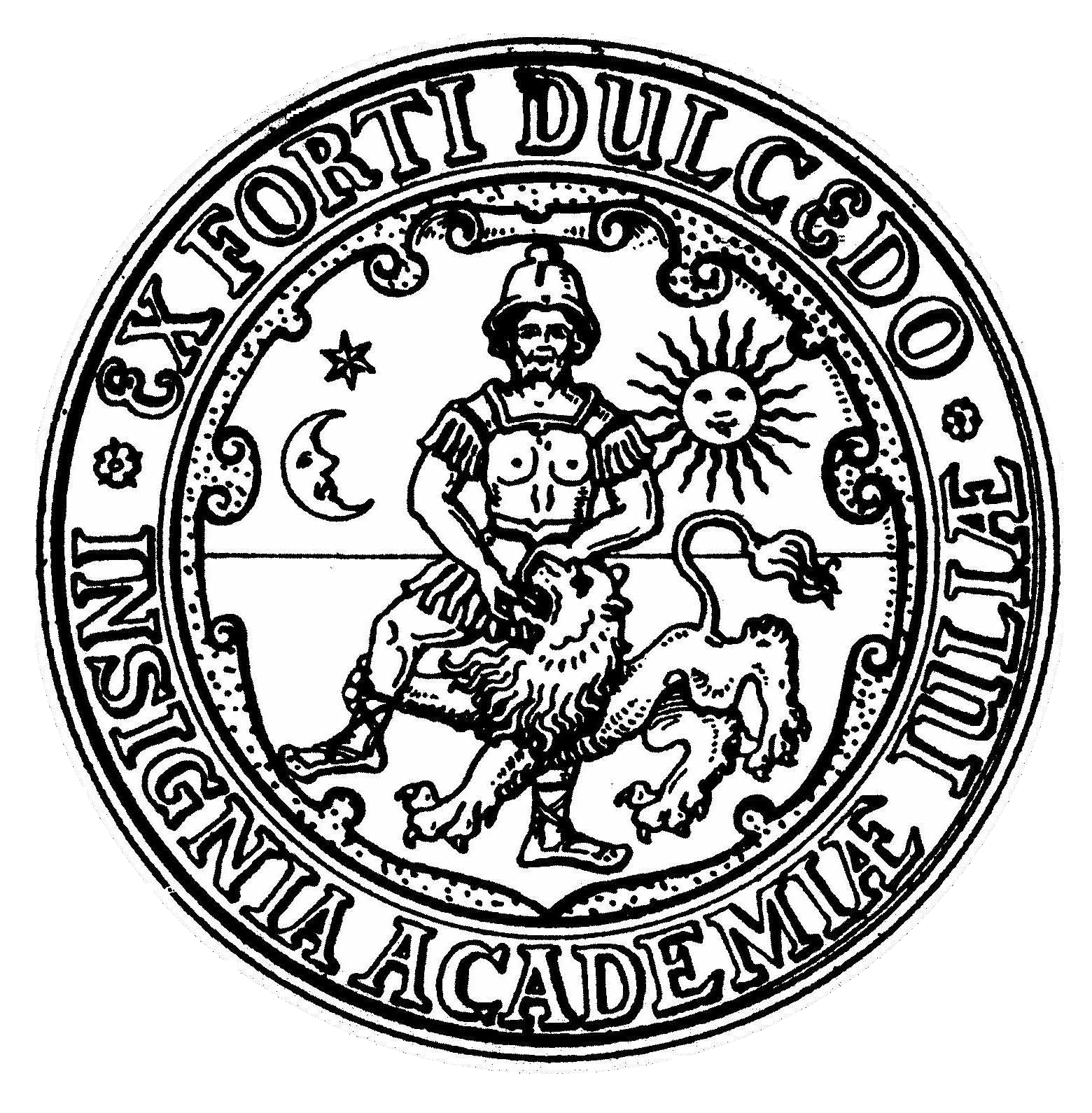 Seal of the University of Helmstedt